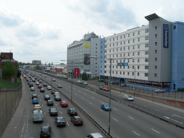 A406 North Circular Road. Picture taken from Grand Union Canal Aqueduct at Alperton/Harlesden. The A406 North Circular Road is shown, it is unusually busy for a Sunday afternoon. The queues are heading towards the Hanger Lane Gyratory. This photo is a companion photo to these ones. 16156 310337